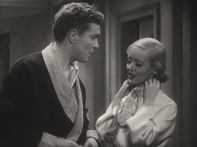 Theodore Newton & Bette Davis in The Working Man - trailer (cropped screenshot)